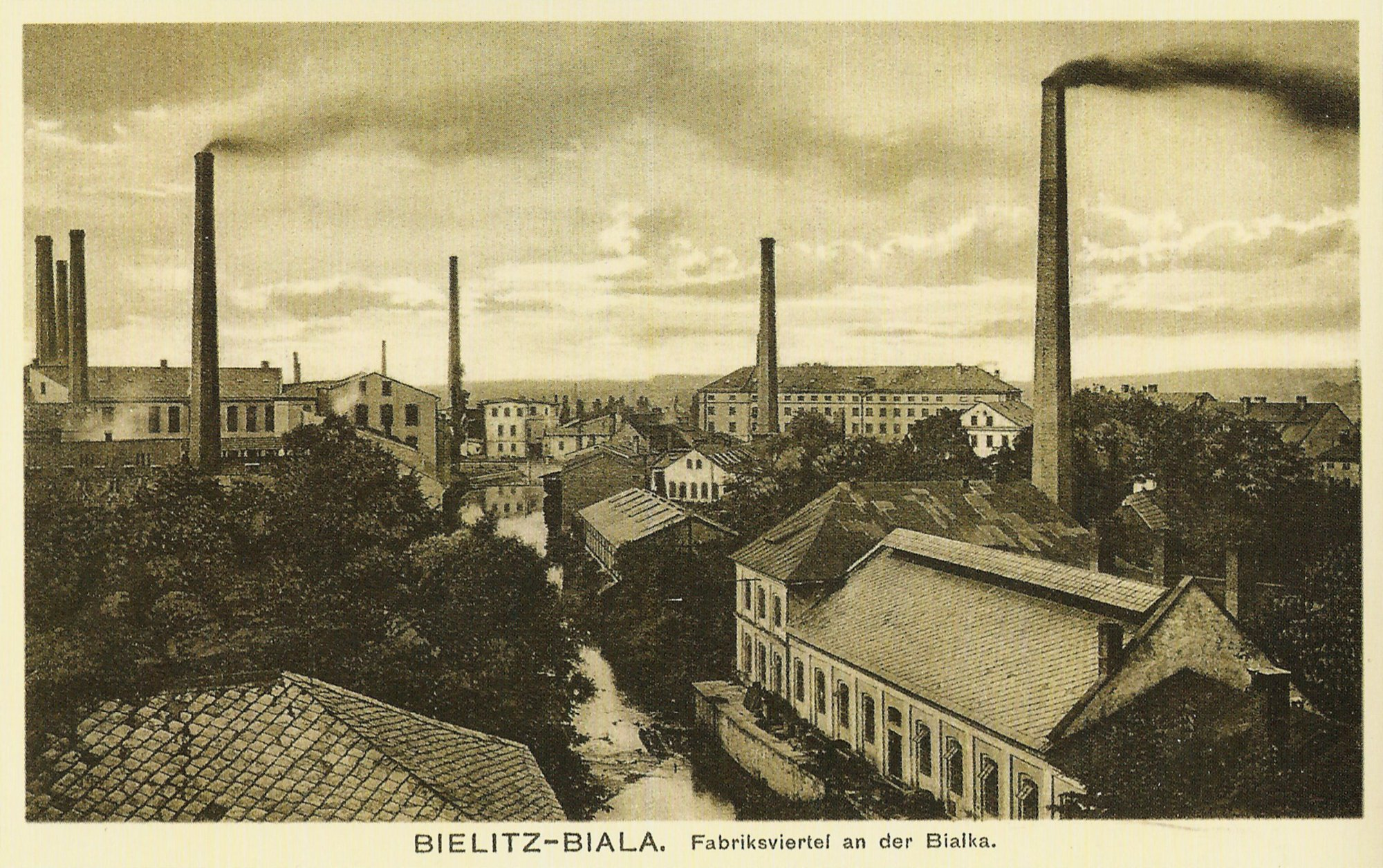 North industry district in Bielsko-Biała, Poland, in 1915.